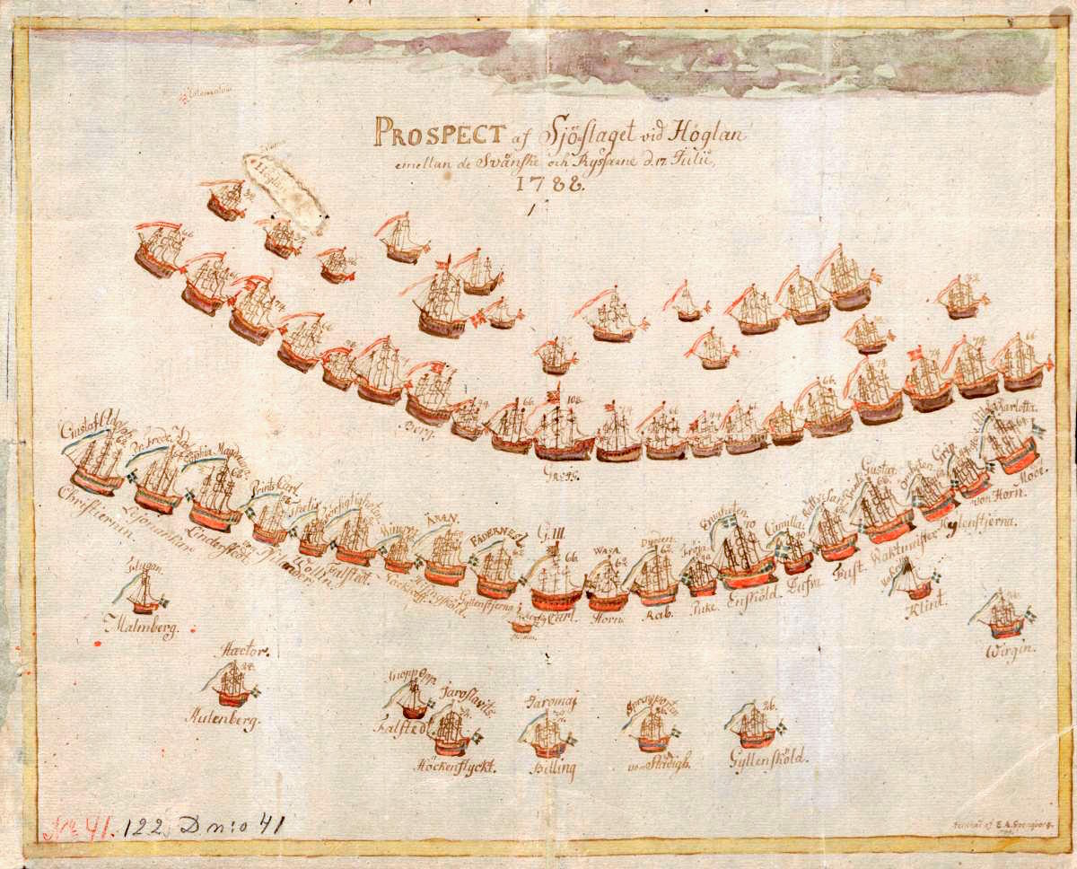 Map of the battle of Hogland between Sweden and Russia in 1788.